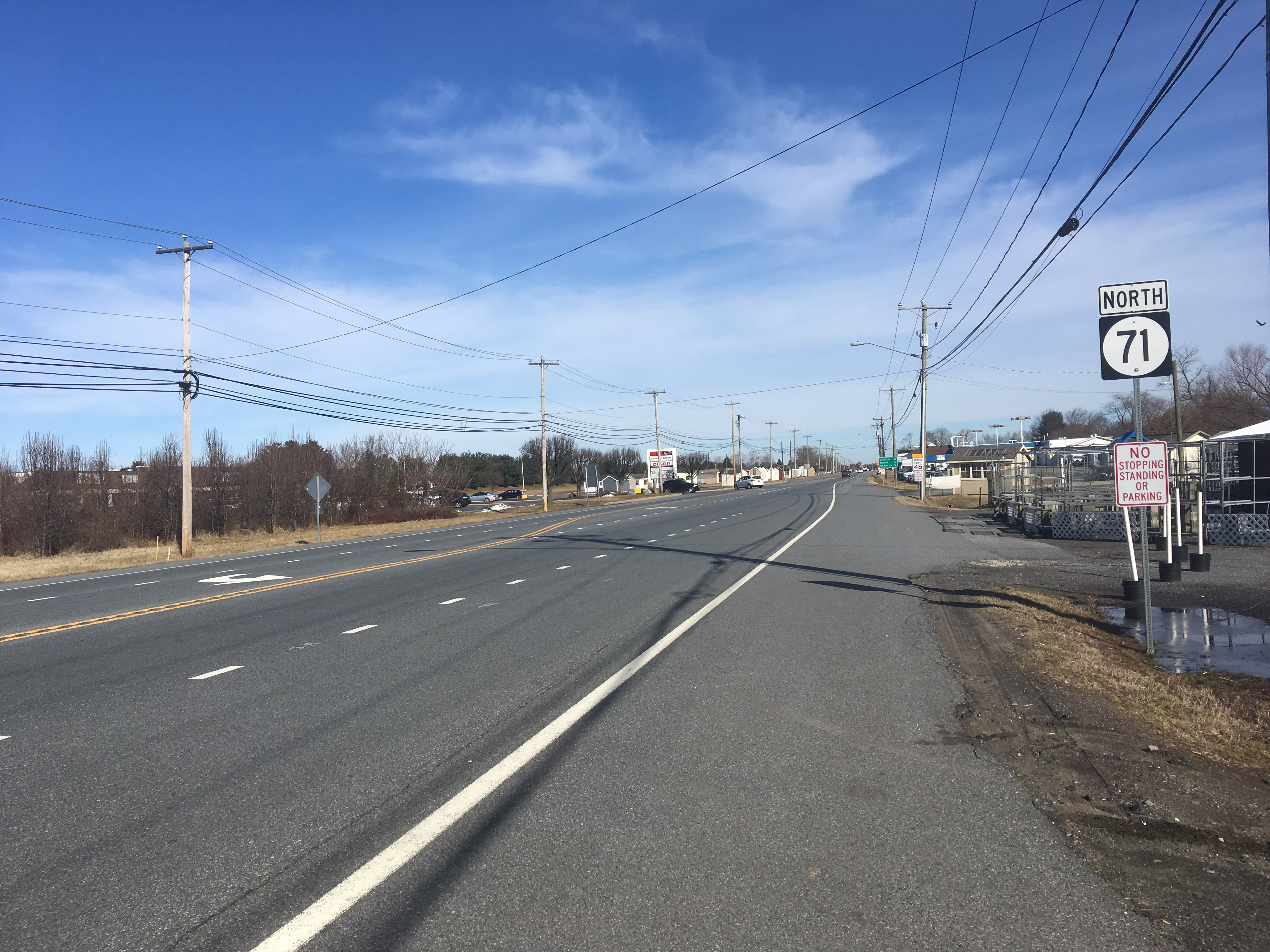 Northbond Delaware Route 71 (Summit Bridge Road) past the intersection with Middletown Warwick Road in Middletown, Delaware